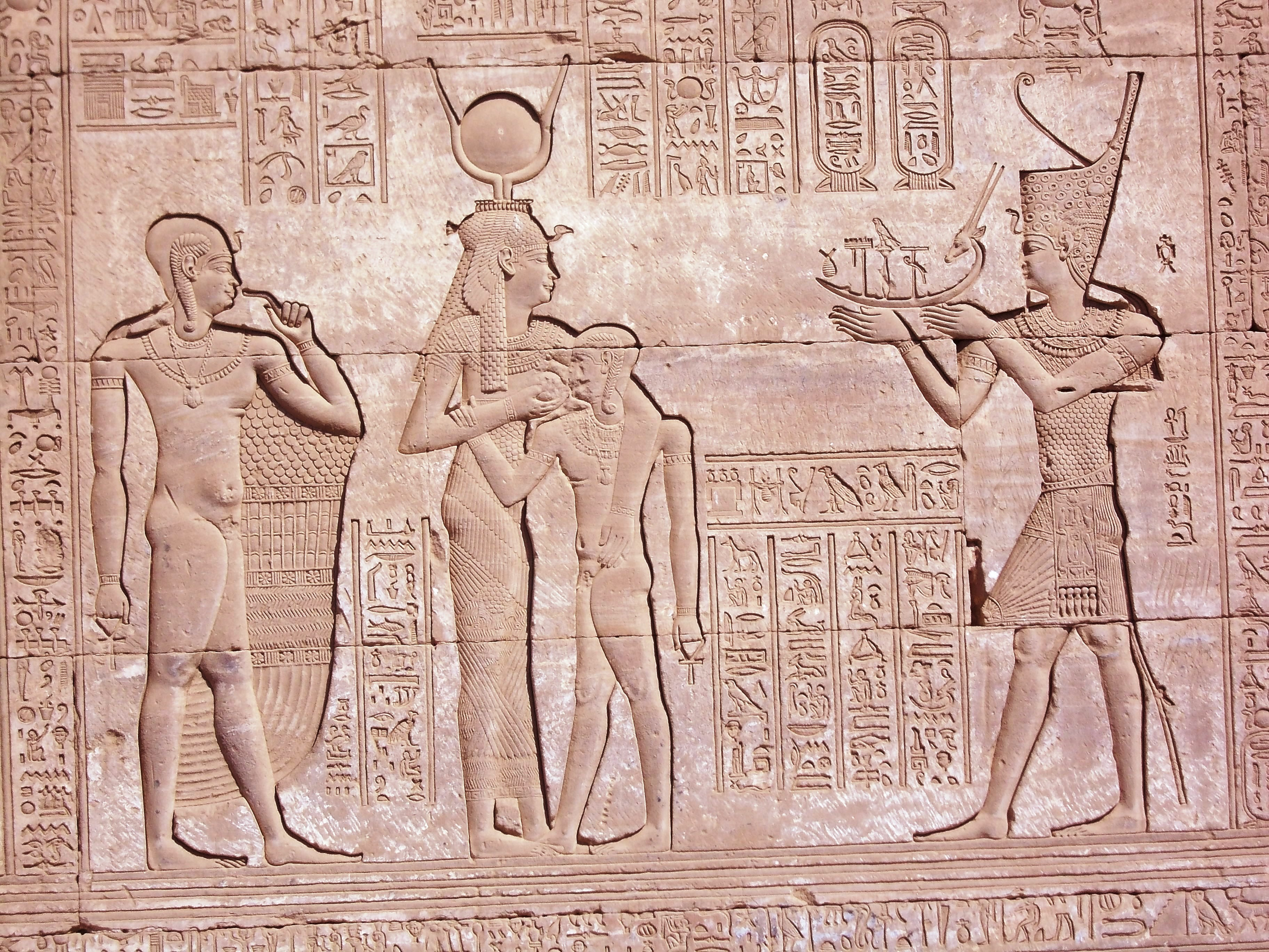 Luxor.Aswan & Qena